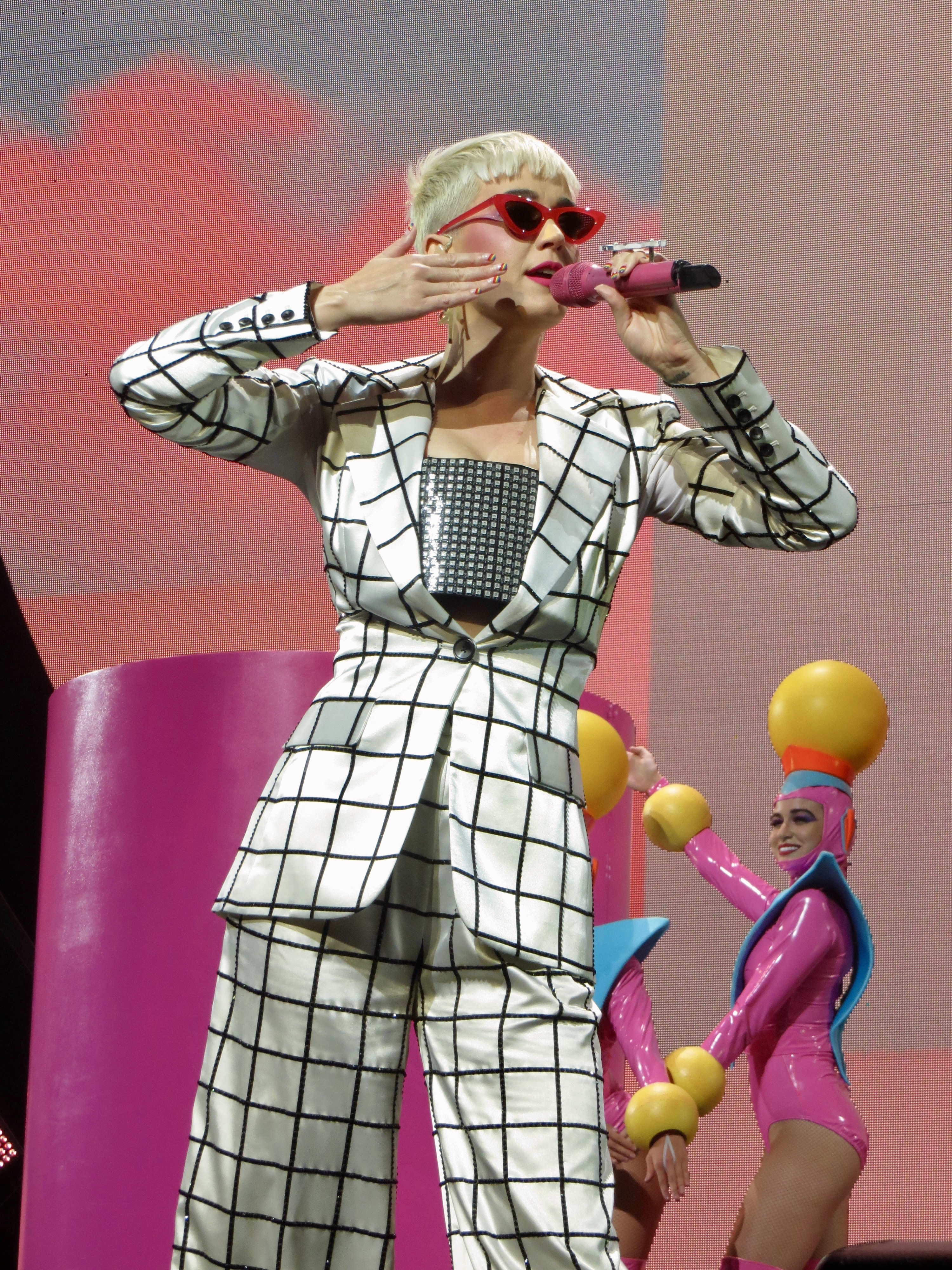 Katy Perry 3